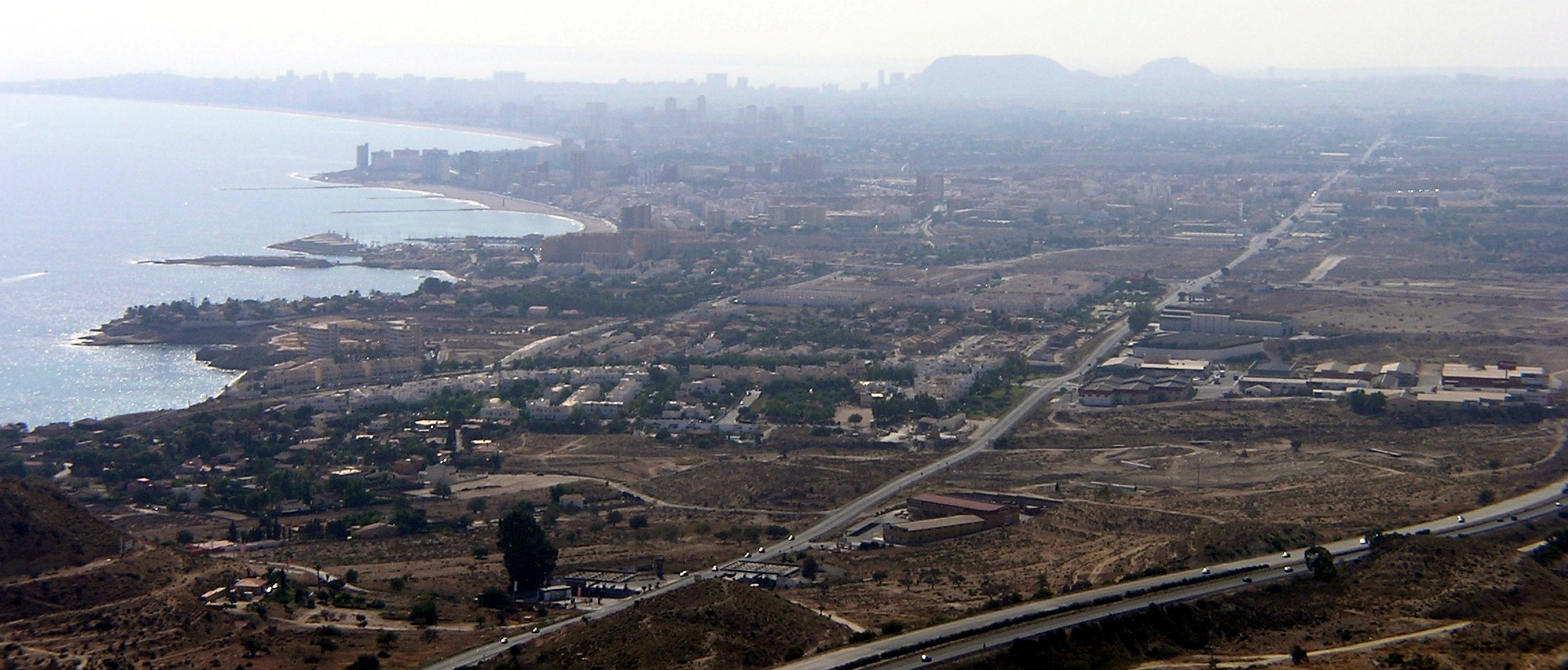 El Campello, Alicante, Spain. View south from the hills to the north of El Campello.